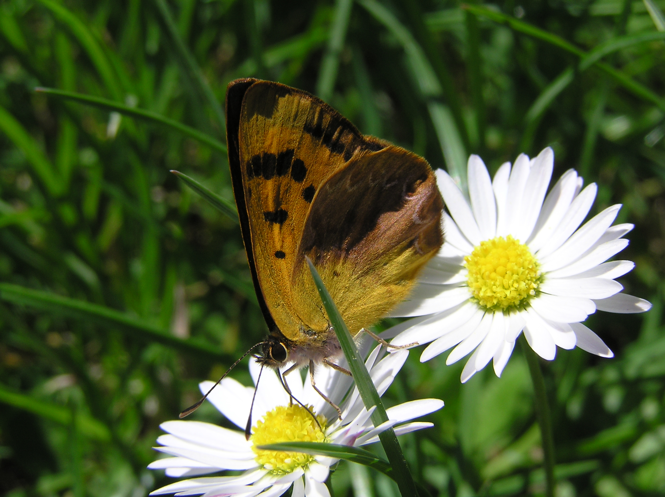 Glade Copper butterfly, female, underwing detail. Karori, Wellington, New Zealand. Māori: Pepe Para Riki